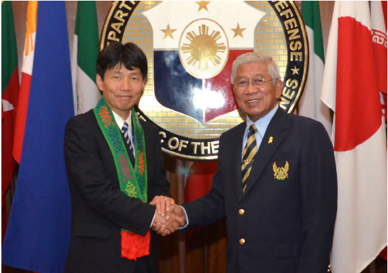 Ichita Yamamoto, Minister of State for Okinawa and Northern Territories Affairs, shook hands with Voltaire Gazmin, Secretary of National Defense, in Philippines on September 5, 2013.